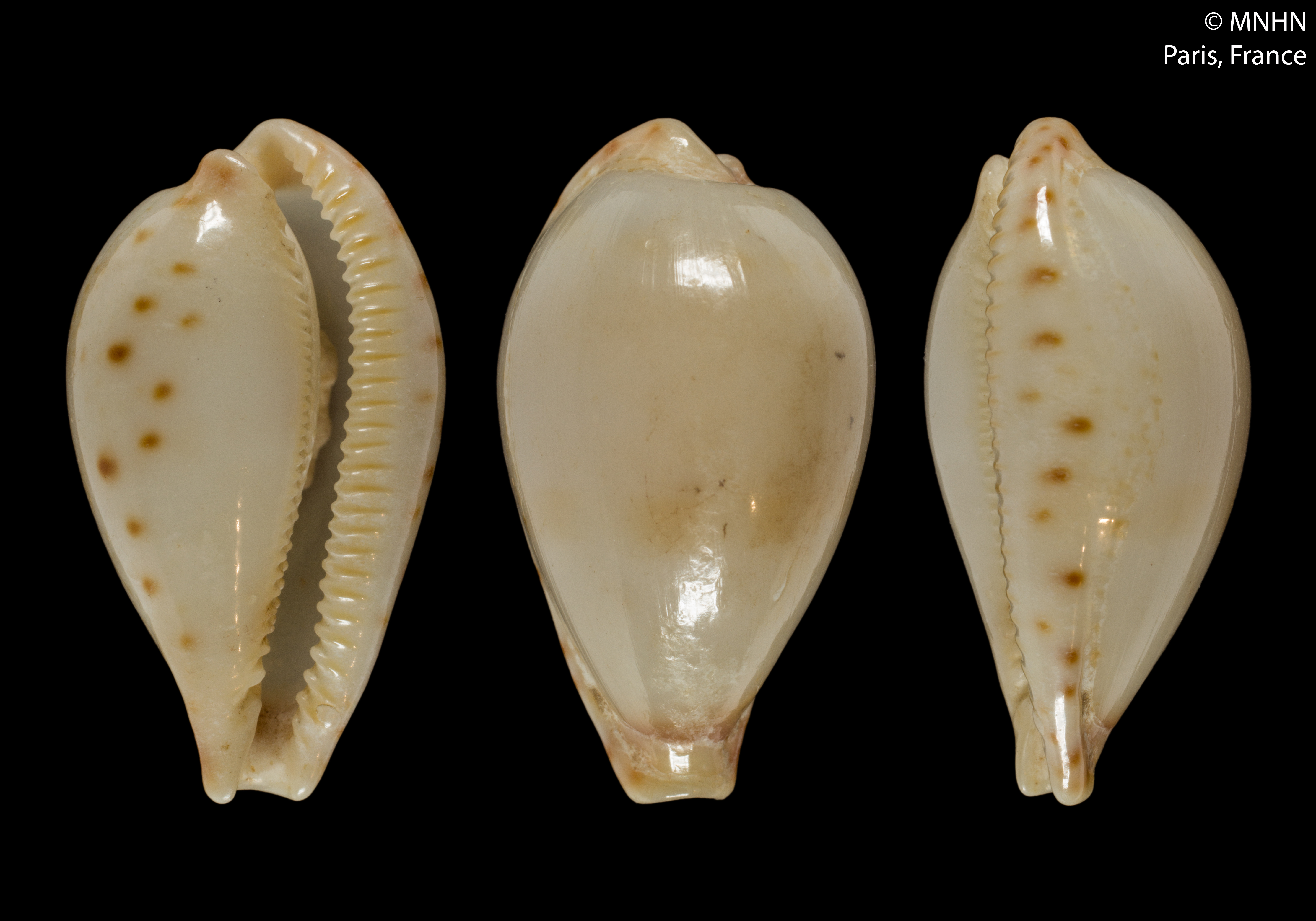 PRESERVED_SPECIMEN; Notadusta boucheti Lorenz, 2002; Type status: HOLOTYPE; Identified by: N/A; Individual count: 1; Event date: 1999-03-04T00:00:00Z